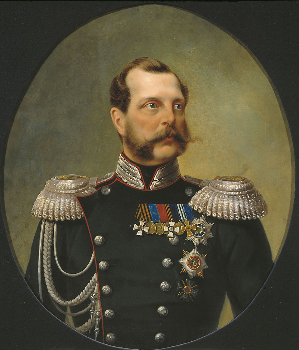 Portrait of Alexander II of Russia